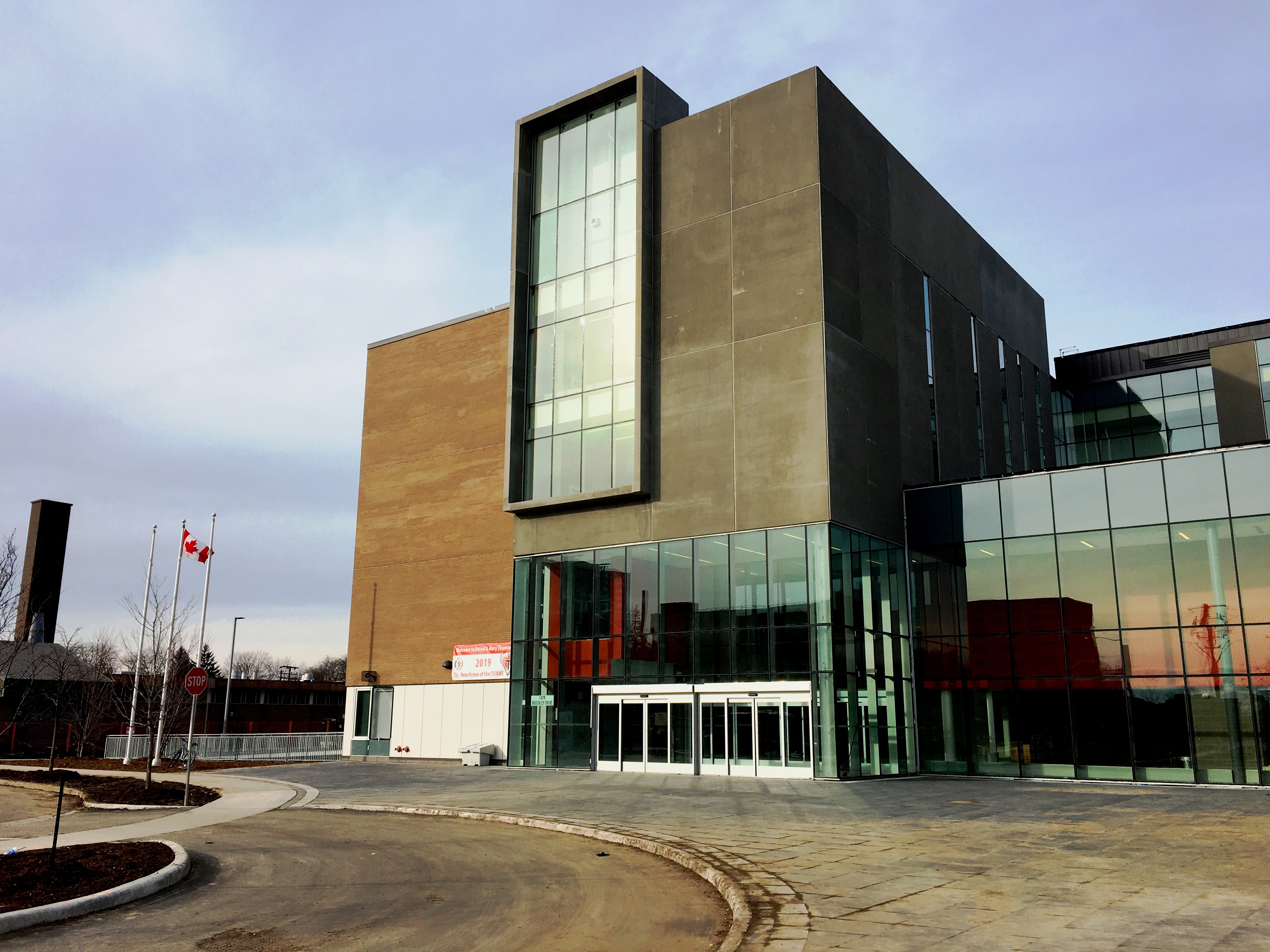 The new David and Mary Thomson Collegiate Institute school building, constructed on the eastern portion of the former Bendale BTI property.